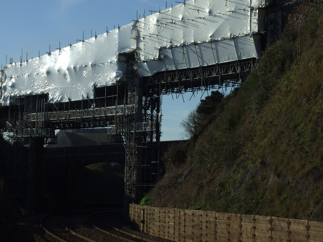 Eastcliff Bridge under repair looking west The Eastcliff Bridge looking towards Teignmouth Station. The bridge is being sandblasted and has been completely wrapped for the task. This shows the amazing amount of scaffolding used. I have posted a view from the other side as well